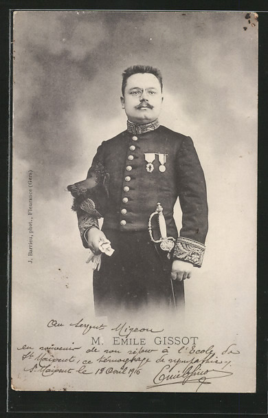 In June 1940, Emile Gissot was ordered by Aristides de Sousa Mendes, Righteous Among the Nations, to issue Portuguese visas to all who requested them.